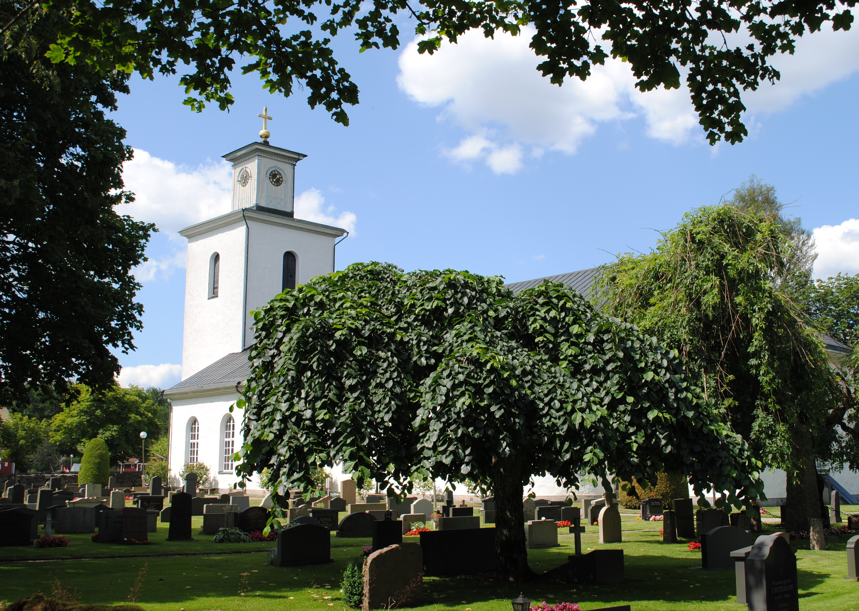 Slätthög Church.Exterior